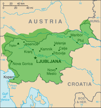 Map showing the distribution of the Slovenian language. Source of data: Terence R. Carlton, Introduction to the Phonological History of the Slavic Languages, Columbus: Slavica, 1990 (ISBN 0-89357-223-3), pp. 380-81.